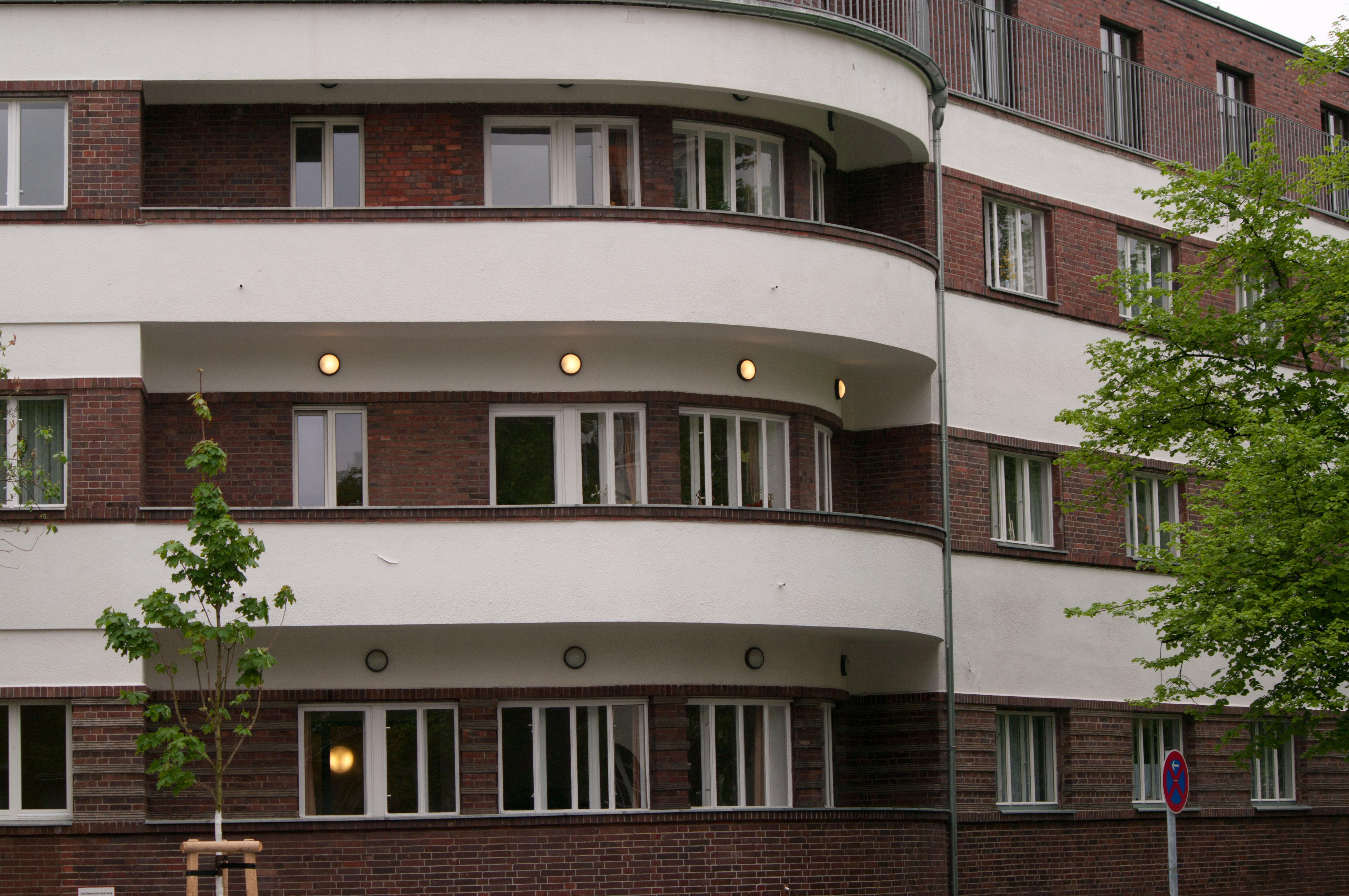 Former jewish retirement home in Berlin-Schmargendorf. Now a retirement home of communal medical company Vivantes.